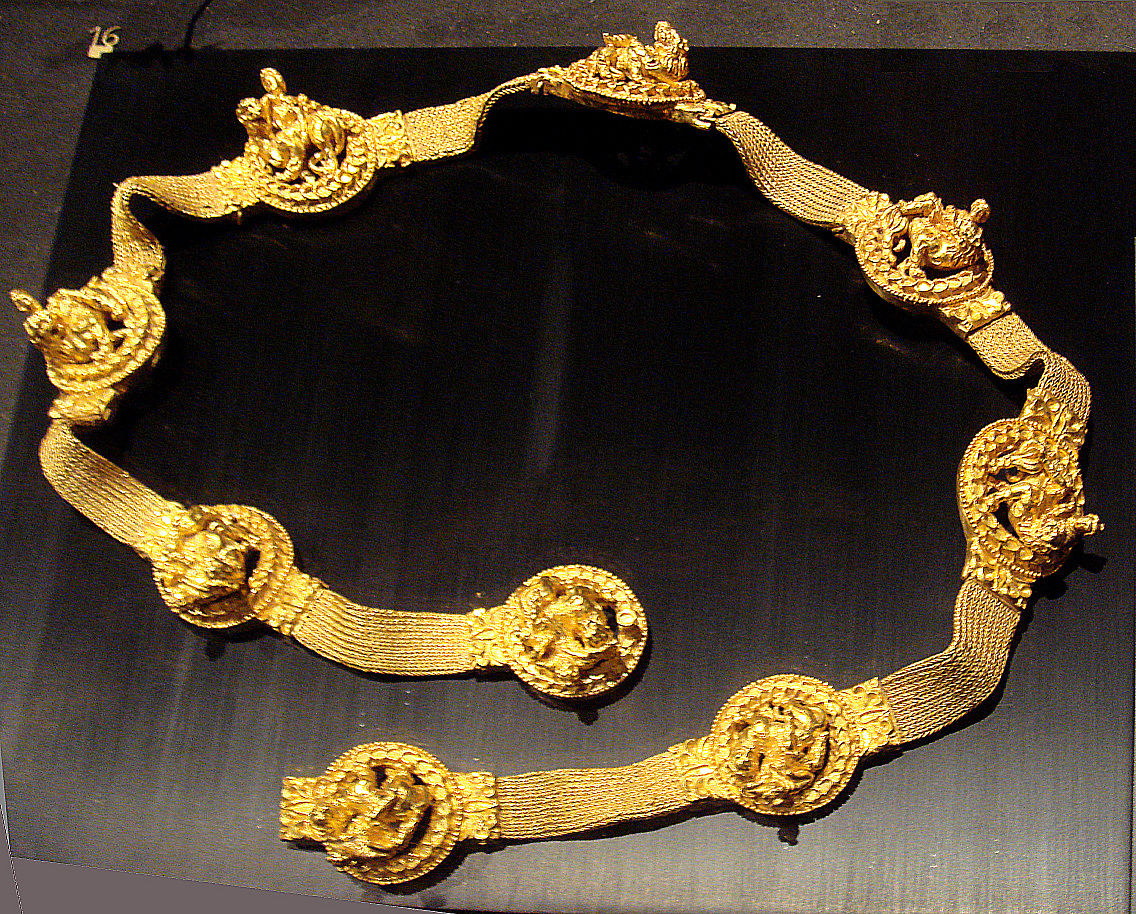 Belt from Tillia Tepe, with depictions of Dyonisus riding a lion. Guimet Museum. Personal photograph 2007.